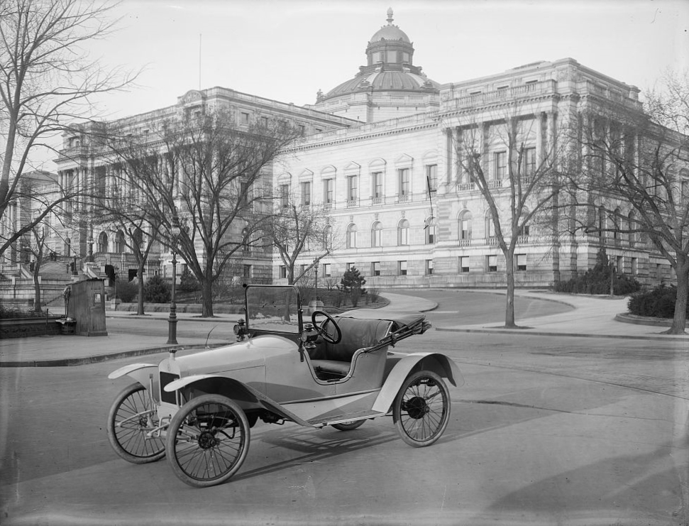 ARGO Auto by LOC [i.e., Library of Congress, Washington, D.C.], 3/28/1915